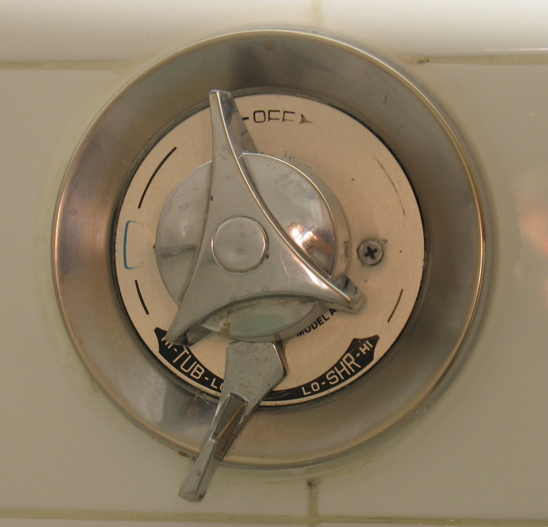 American water tap. Lower lever controls water exit; left: to tub ("TUB"), right: to shower ("SHR"), middle: no water. Central lever controls temperature: turn anti-clockwise to augment water flow, turn further to increase temperature.